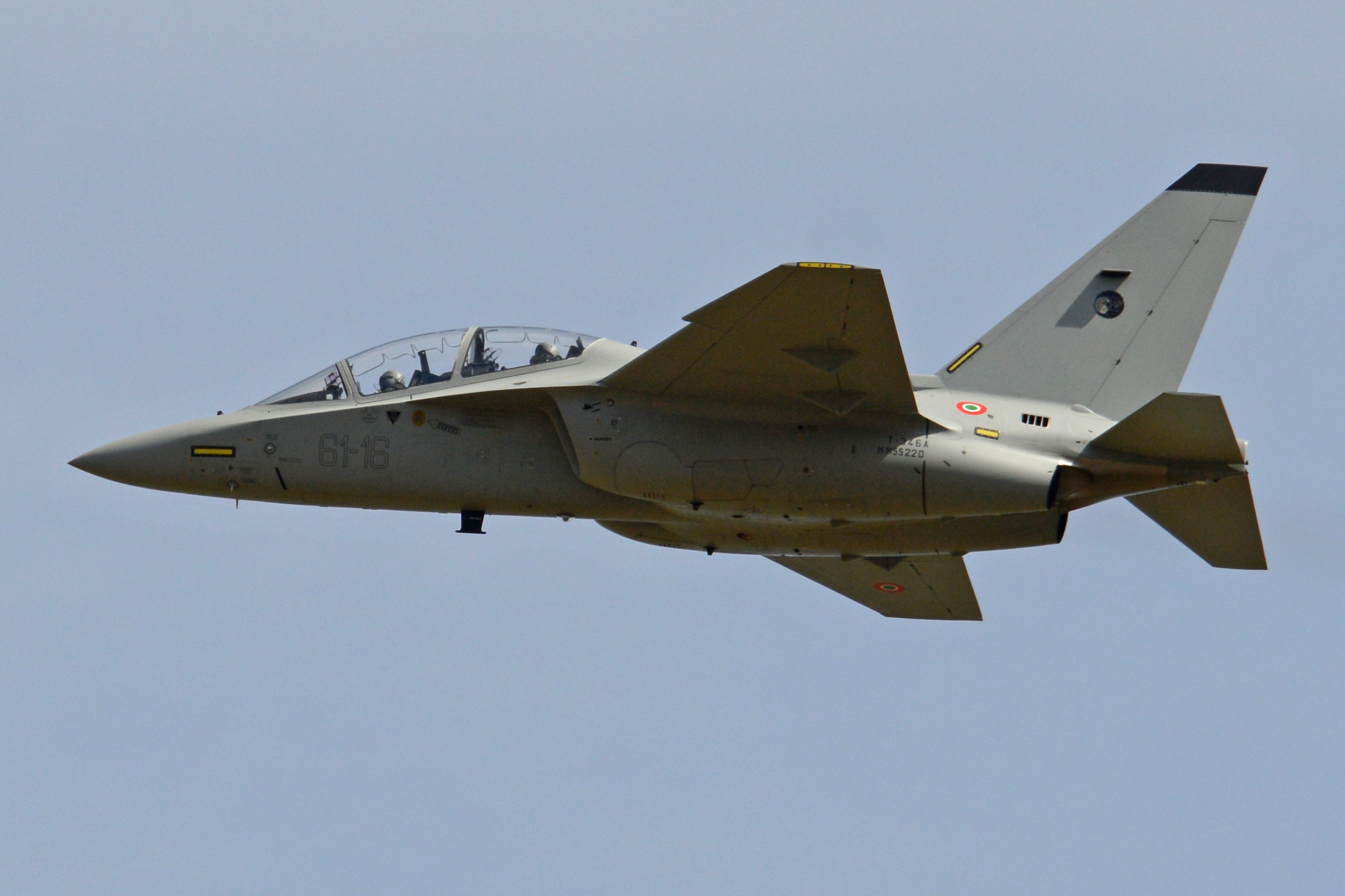 c/n unknown. Operated by 212º Gruppo, 61º Stormo, Italian Air Force, based at Galatina Air Base Seen departing after taking part in the 2017 Royal International Air Tattoo. RAF Fairford, Gloucestershire, UK. 17th July 2017